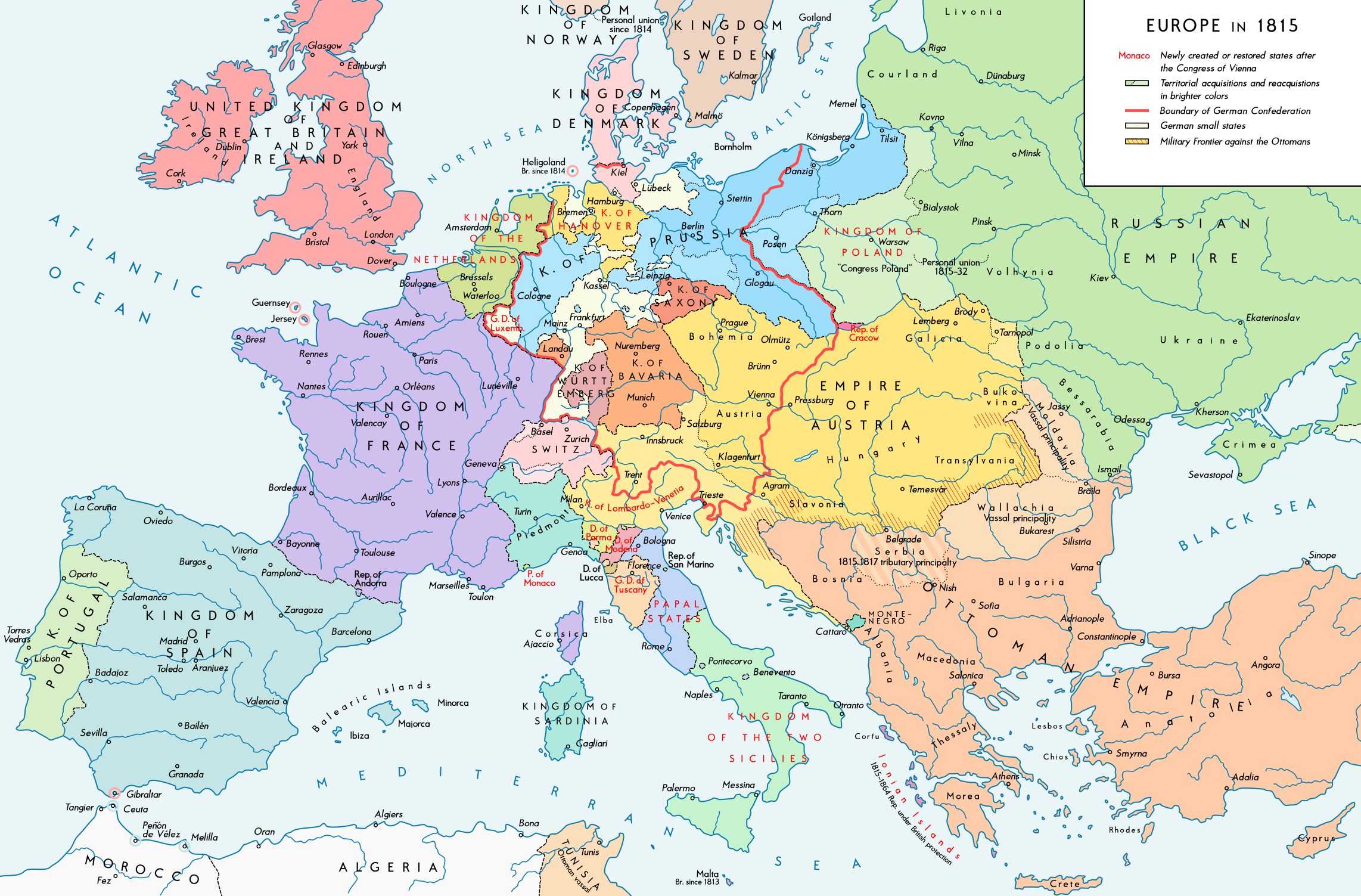 Europe 1815. Political situation after the Congress of Vienna in June 1815. Please don't alter the map when you think there is something not written or depicted correctly. Leave a message at the talk page of the file. After a verificiation and a possible discussion, I will upload a new map version with all new changes. This prevents an unnecessary waste of disc space and ensures a good result, aesthetically and content-wise. - The author.